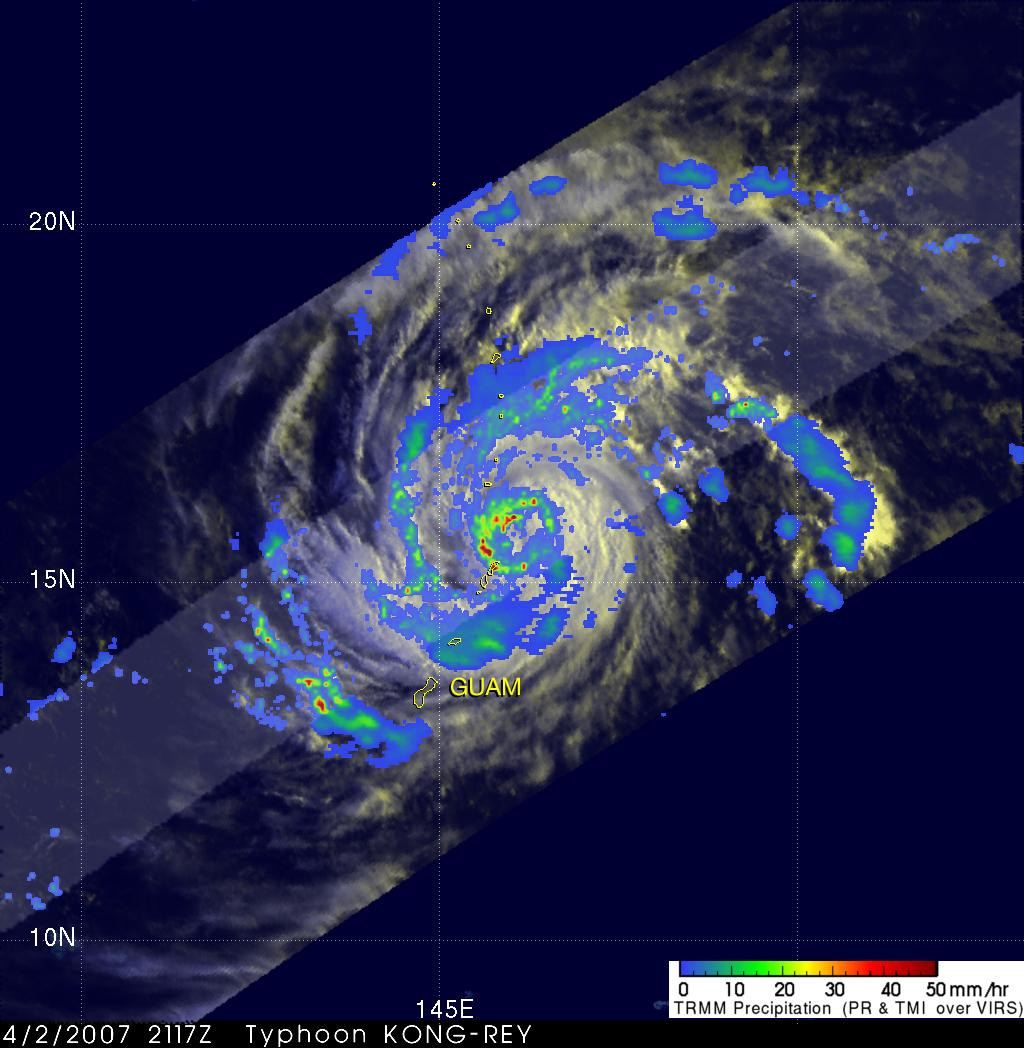 This image from TRMM, at 2117 UTC April 2, 2007, shows how intense rain associated with Typhoon Kong-rey is falling within the system, and reveals a partial eye wall in the northwest quadrant, made up of heavy rain (small red arc). The curved rain bands surrounding the center (green ring with embedded areas of red, indicating moderate rain intensities with localized areas of heavy rain) depict a well-developed circulation.